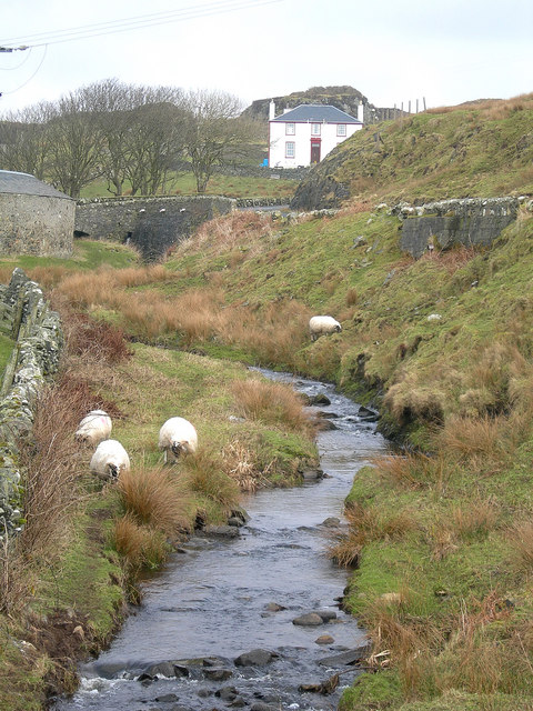 Kilchiaran Farm